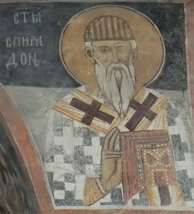 Fresco of St. Spyridon in the Zemen monastery, Bulgaria